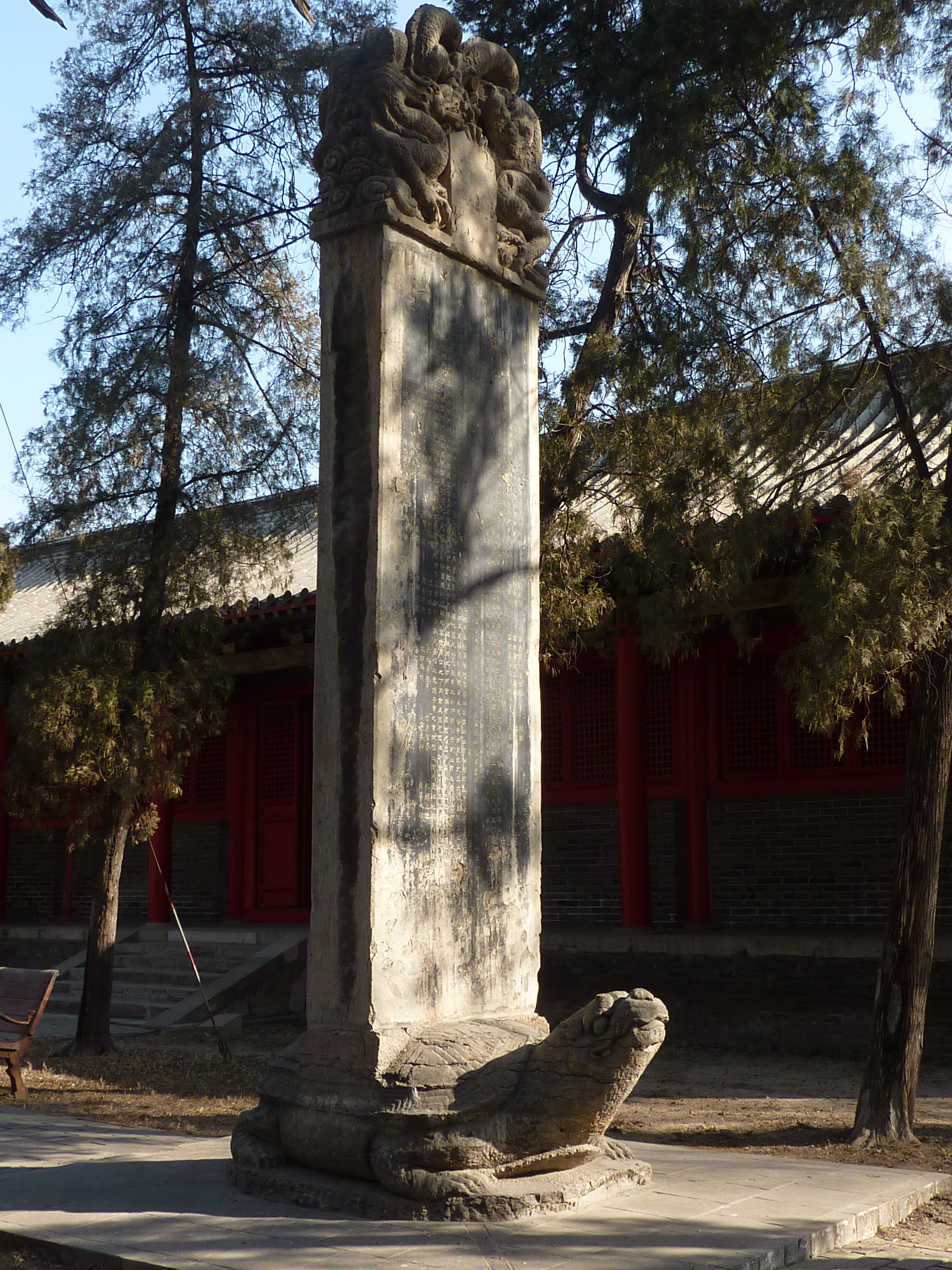 Yan Miao: the northern courtyard. In its eastern part, the turtle-born Yan Miao Renovation Stele dated Year 9 of Zhizheng era (AD 1349) is located.